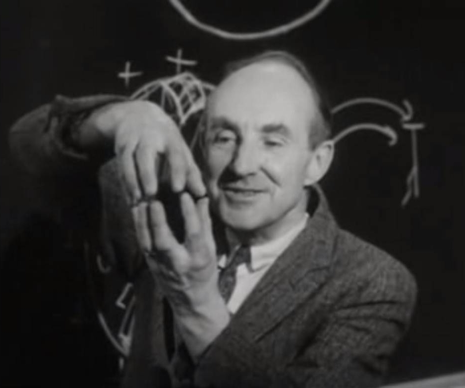 Image of Eric M. Rogers from the film Coulomb's Law (Richard Leacock, 1959). The film was among the products of the Physical Sciences Study Committee (PSSC). Screenshot is about 23:50 after the film's beginning, and was cropped from the original.